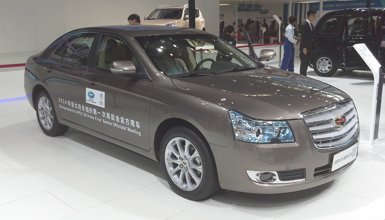 Emgrand EC8 photographed at the Auto China 2014, Beijing, China.